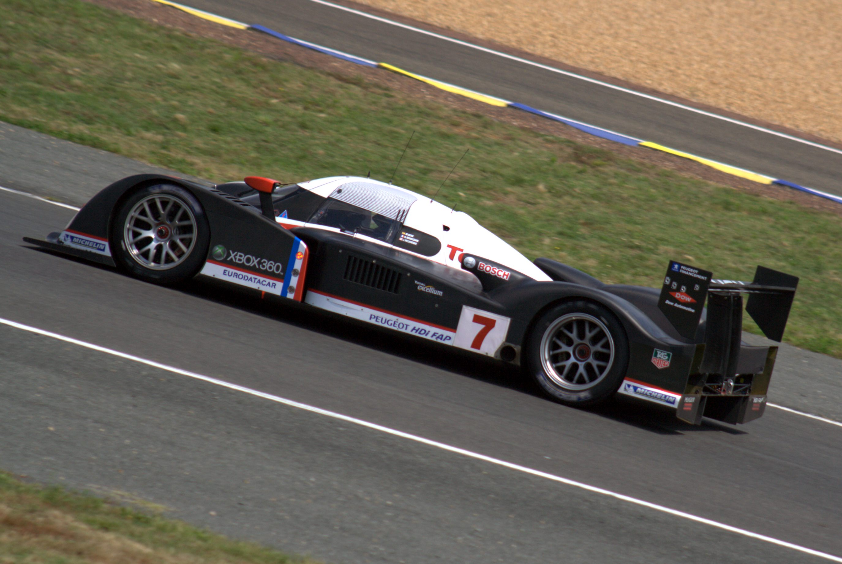 Peugeot 908, Test day of the 24 hours of le Mans, 3rd June 2007